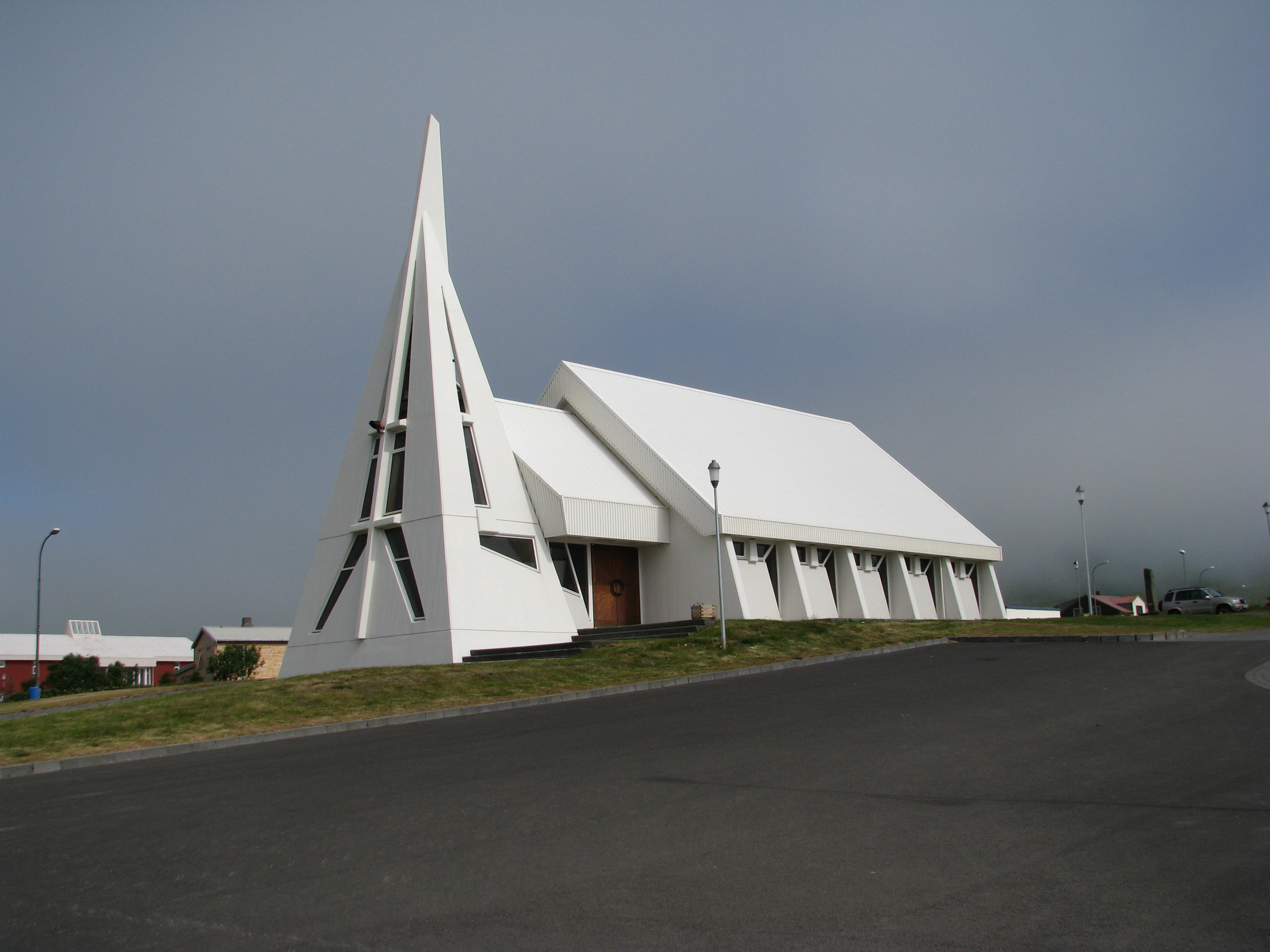 Church of Skagaströnd, a town in Iceland.